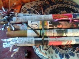 photo